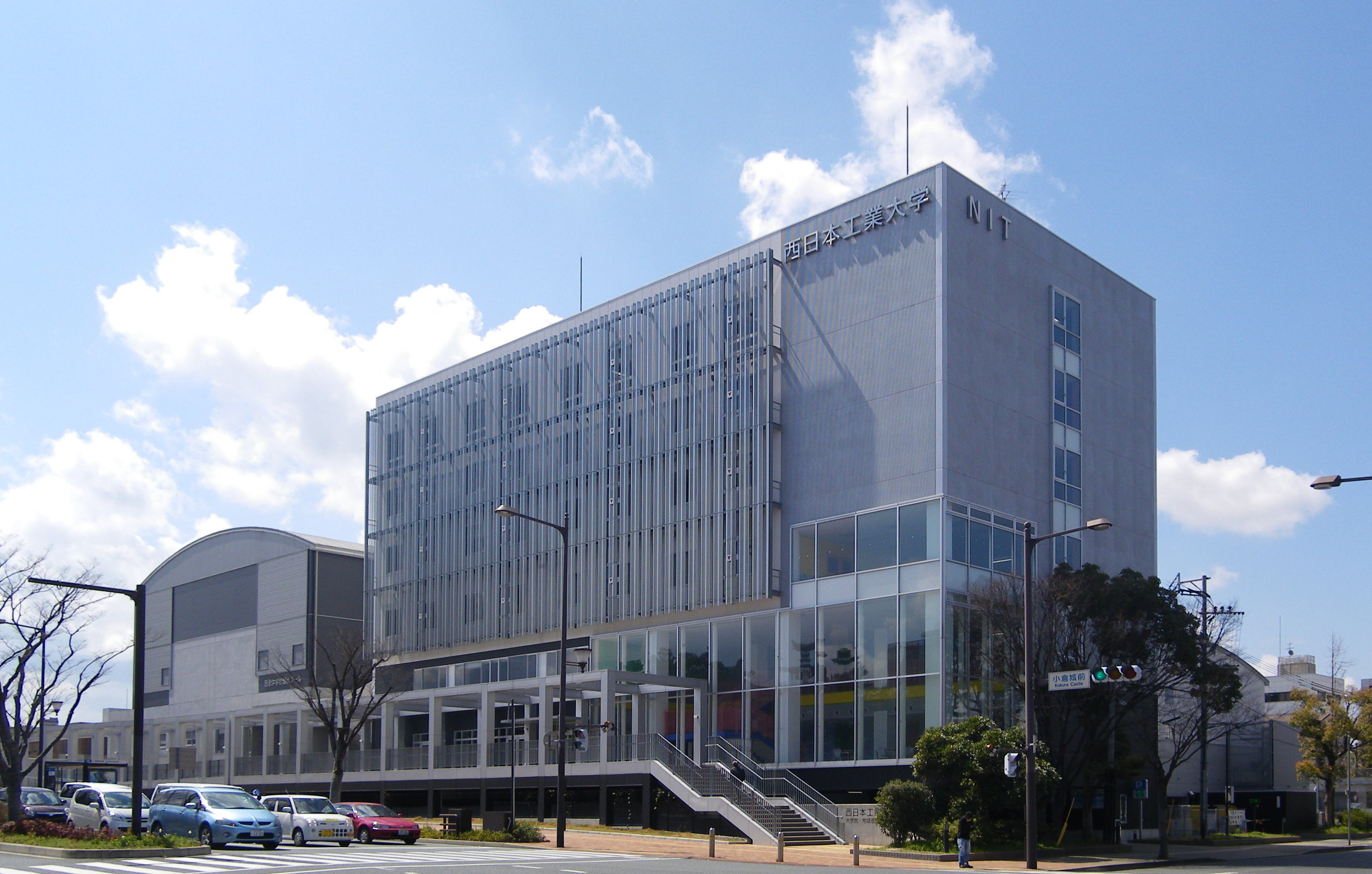 Nishinippon Institute of Technology Community Cooperation Center